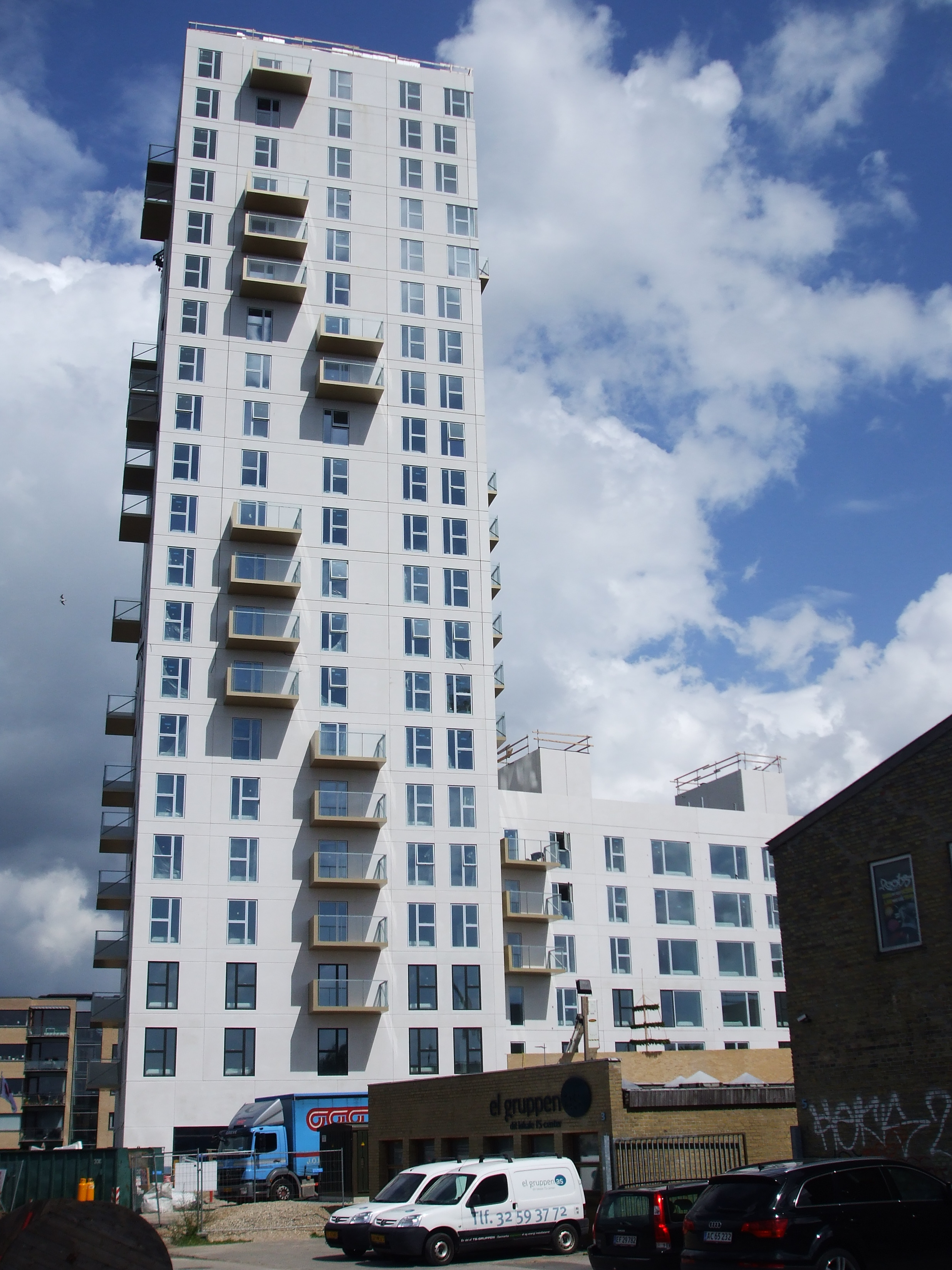 Øresundstårnet, Copenhagen, Denmark. Photo by Jesper Haagensen